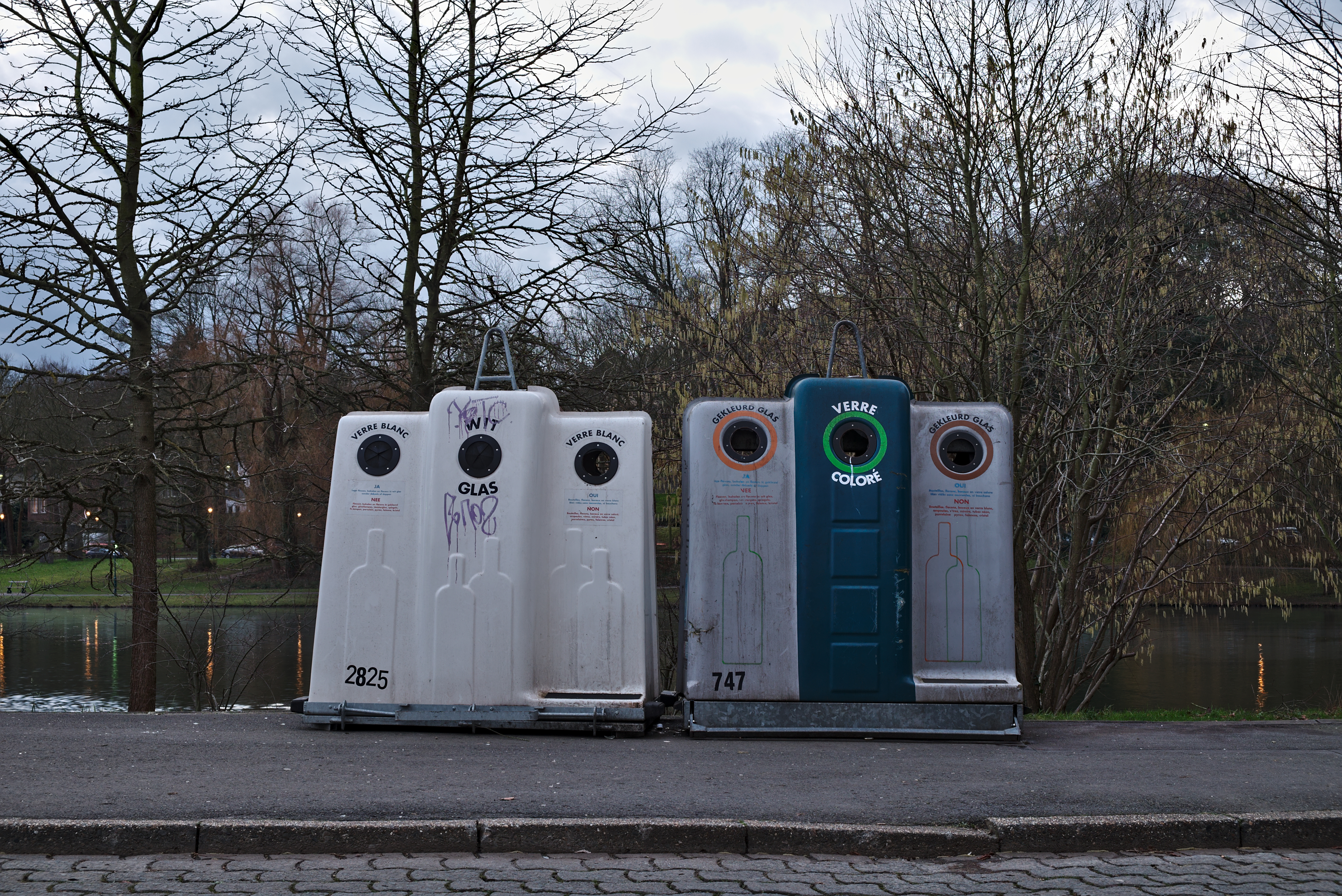 Glass salvage containers in front of Park Tenreuken during the day (Auderghem, Belgium, DSCF2709)